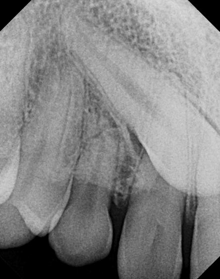 Impacted canine